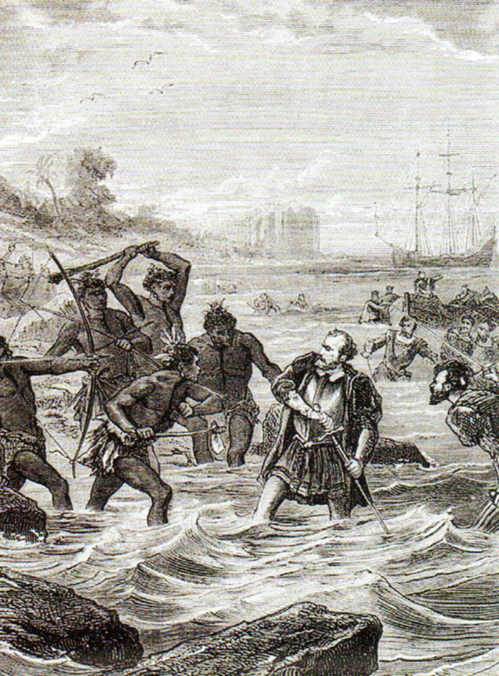 19th cent. picture showing the death of F.Magellan